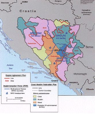 Bosnia and Herzegovina at the time of the Dayton Accords.